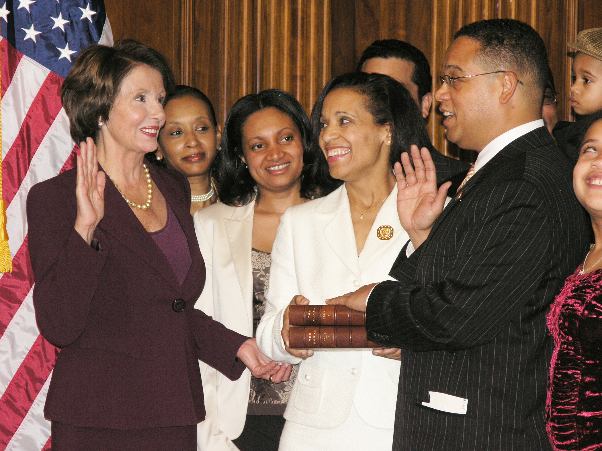 House Speaker Nancy Pelosi is seen here (left) during Congressman Ellison's Swearing In Ceremony with Thomas Jefferson's Qur'an